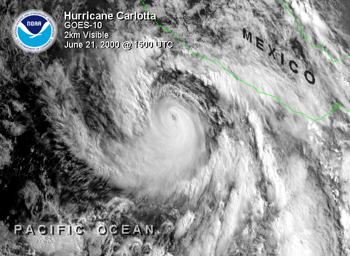 Hurricane Carlotta on June 21, 2000 at 15:00 UTC. The storm's maximum sustained winds were 155 mph and its minimum pressure was 934 mb.